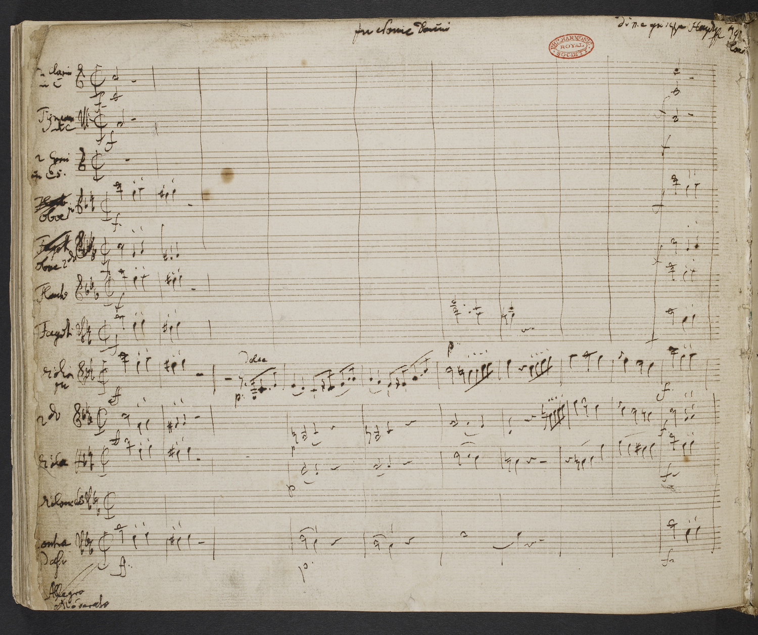 Symphony no. 95. In the composer's hand.